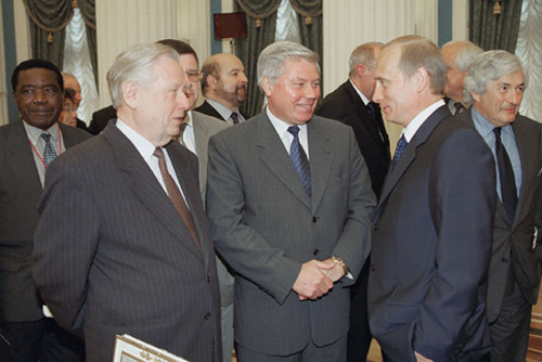 THE KREMLIN, MOSCOW. Meeting delegates to the 2nd Global Justice Conference. President Putin with Supreme Court Chairman Vyacheslav Lebedev and Constitutional Court Chairman Marat Baglai (left).